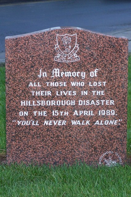 Hillsborough Memorial - 1, Middlewood Road, Hillsborough, Sheffield. This memorial, to the Liverpool Supporters who lost their lives on 15th April 1989, was paid for and erected by the shopkeepers and traders of the Middlewood Road area, close to Hillsborough. This memorial pre-dated the memorial outside the ground by some years. 1182326 1254629 1254636 1254666 1254673